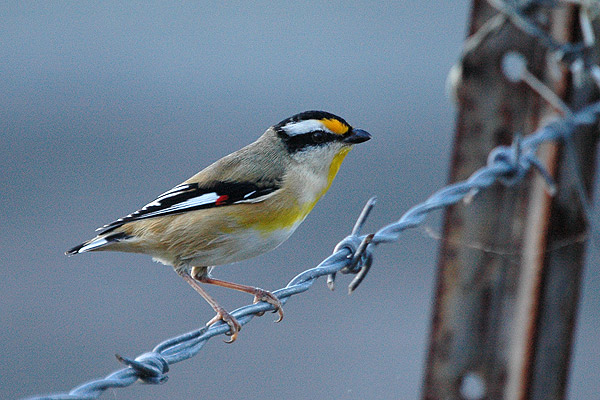 Striated Pardalote (Pardalotus striatus melanocephalus)